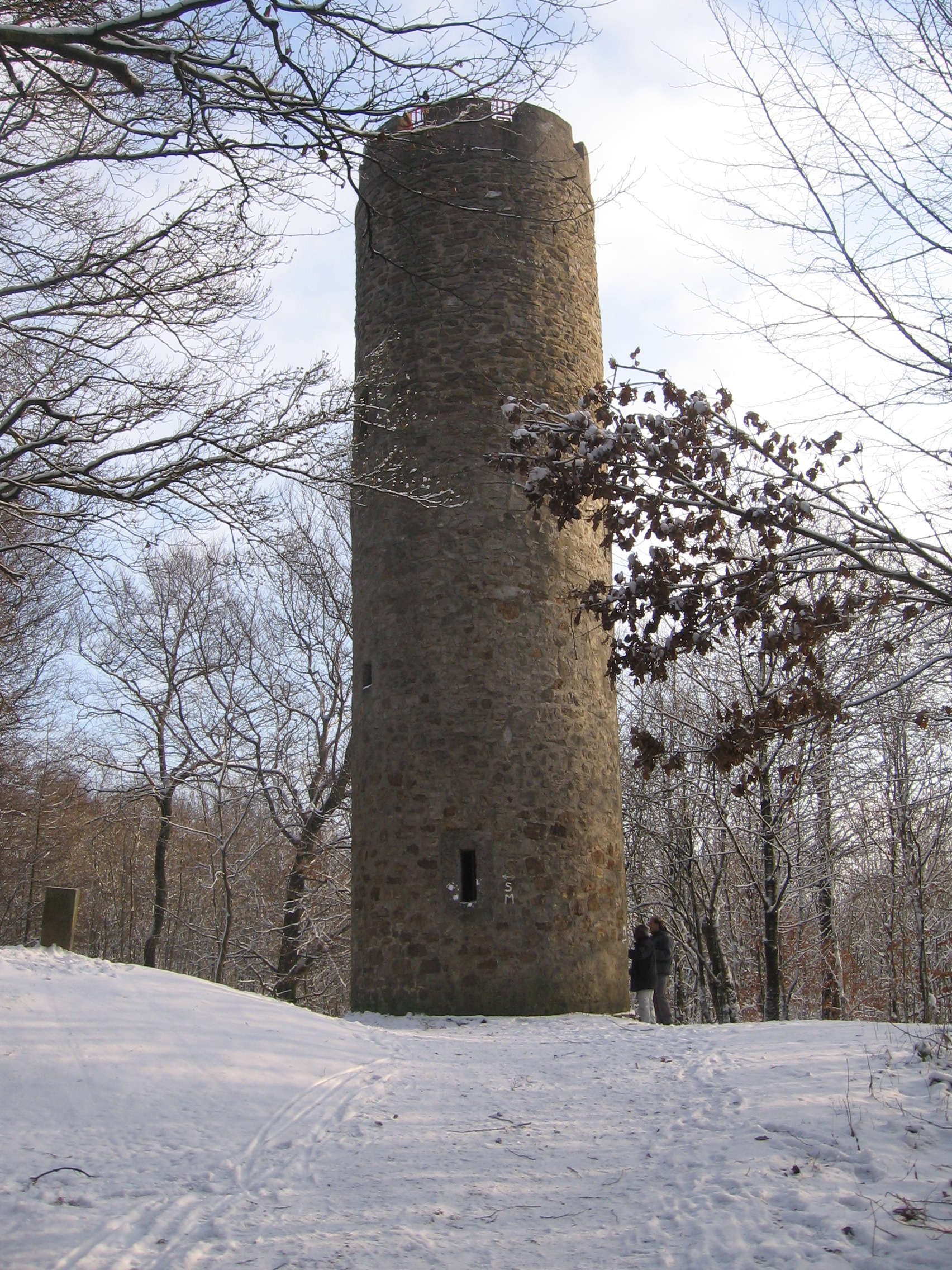 Nonnenstein tower in Wiehengebirge, Germany, near Rödinghausen.